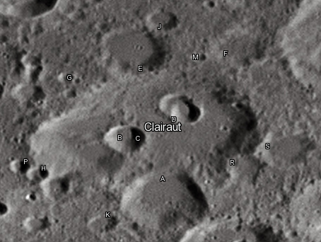 Clairaut lunar crater as seen from Earth with satellite craters labeled